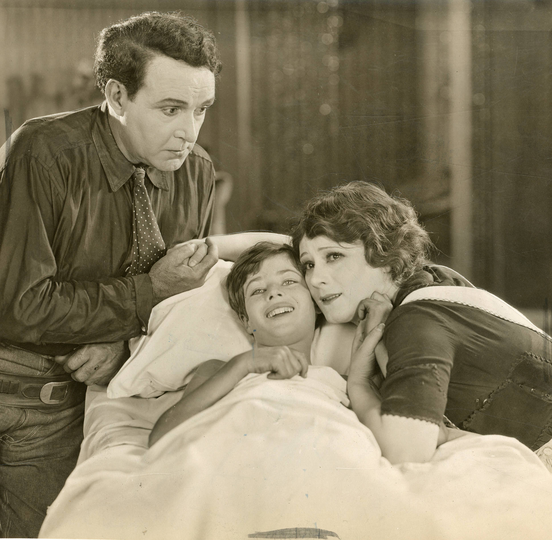 Still from the American film While Justice Waits (1922). Subjects: motion pictures, actors, actresses